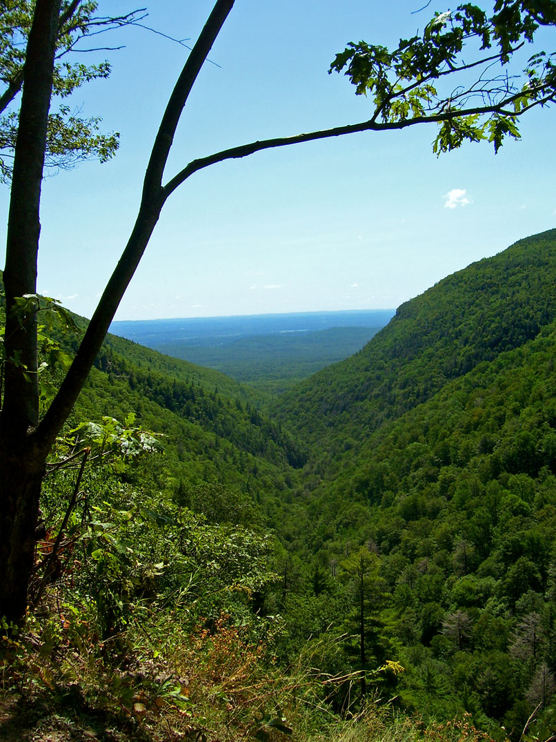 Photographed by Daniel Case 2006-08-12 (Note: Hiking is strongly discouraged in the area in which this photo was taken due to the steep slopes and high cliffs that have led to fatalities in the past. Even this photo was taken mere inches from some pretty serious exposure, after bypassing some brush-pile closings on the trails and paths that lead here. Please don't go looking for this view yourself.)